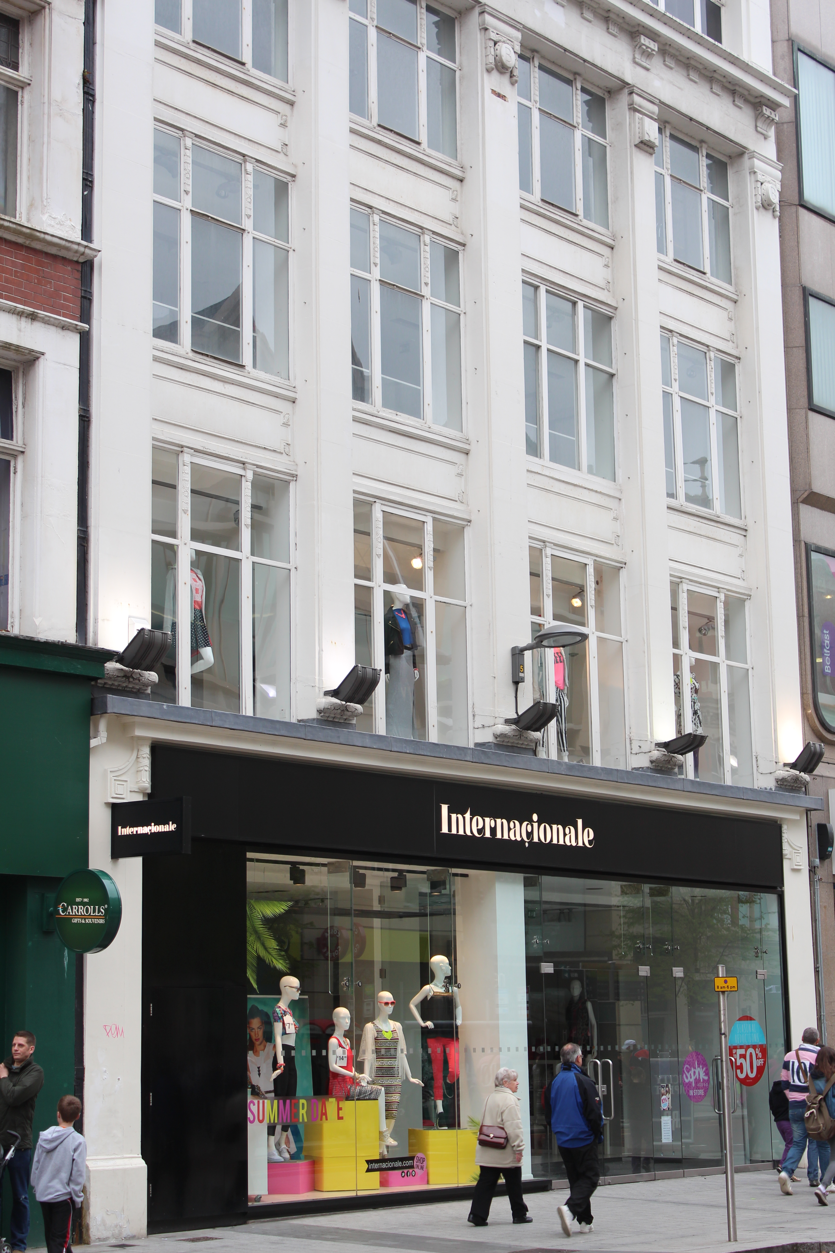 Internacionale clothing shop, Donegall Place, Belfast, Northern Ireland, May 2013